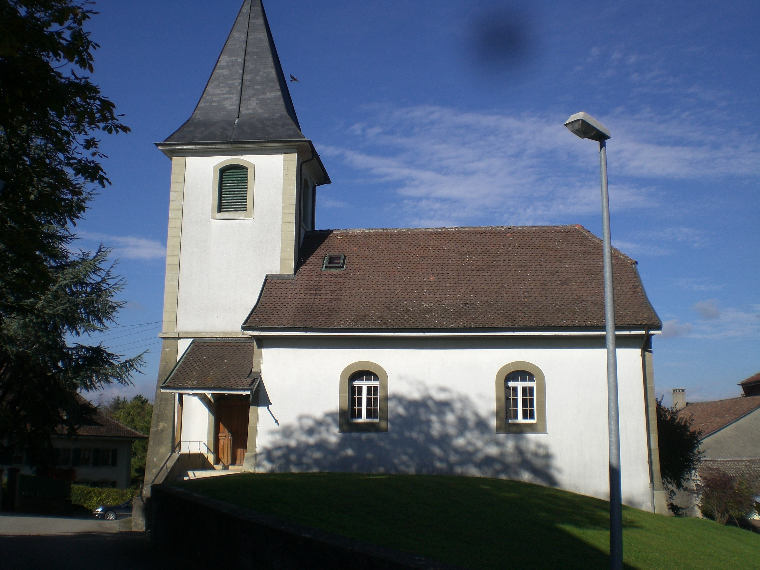 Church of Bettens, canton of Vaud, Switzerland